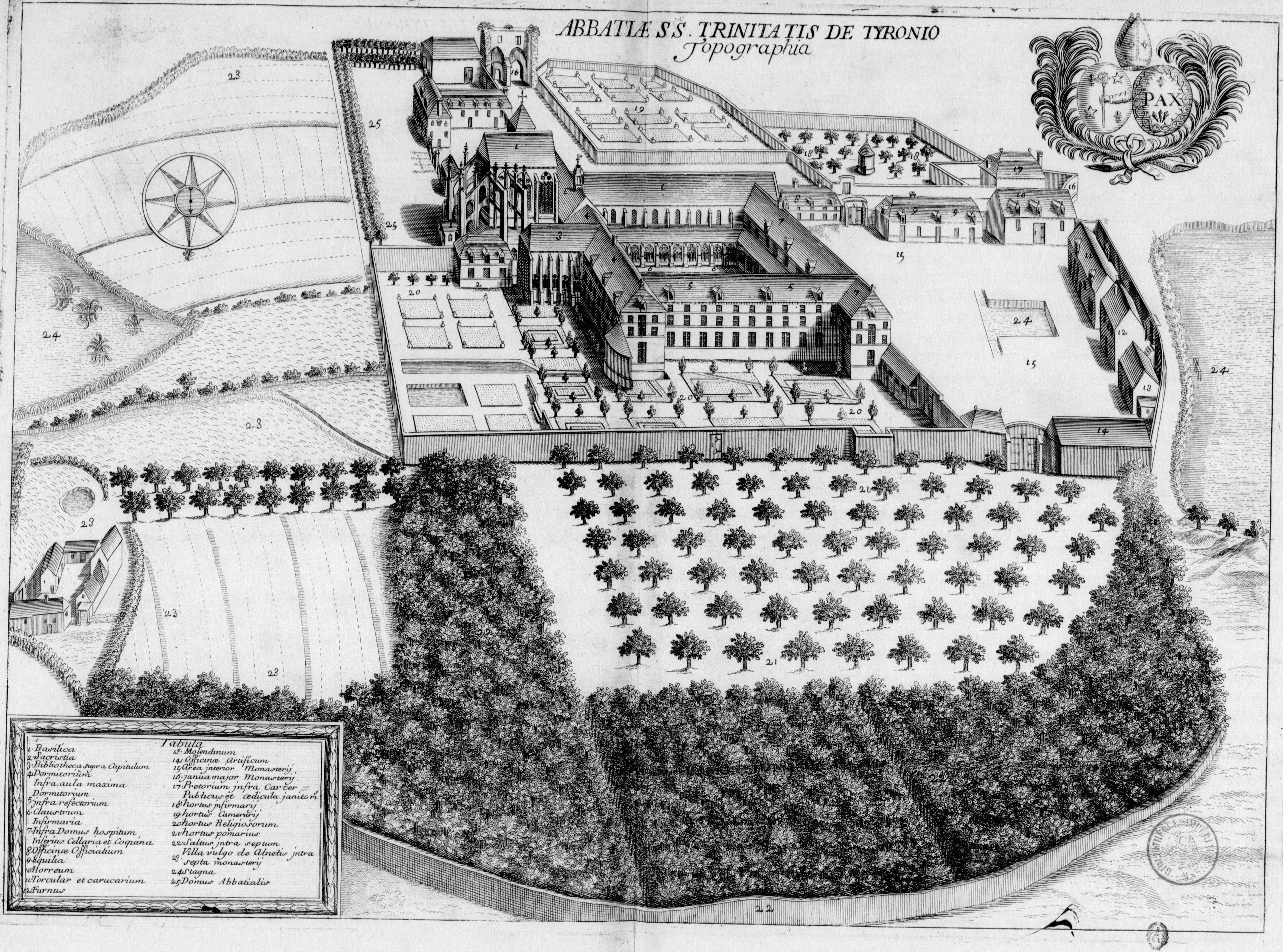 Abbey of Tiron, at Thiron-Gardais, engraving from Monasticon Gallicanum, 17th cent.